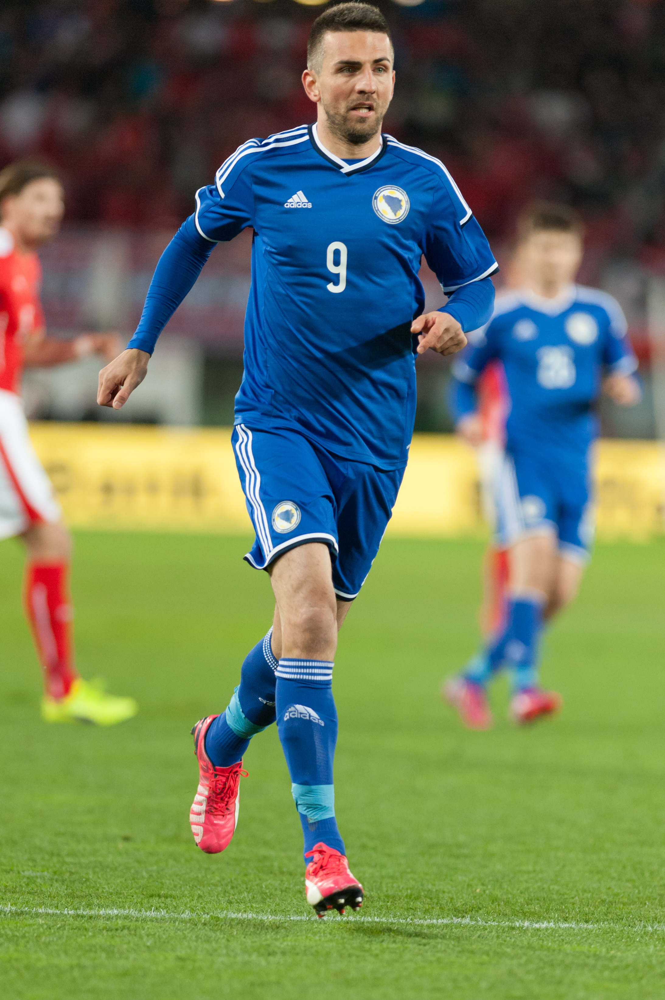 International friendly Austria vs. Bosnia and Herzegovina, 2015-03-31, Vienna